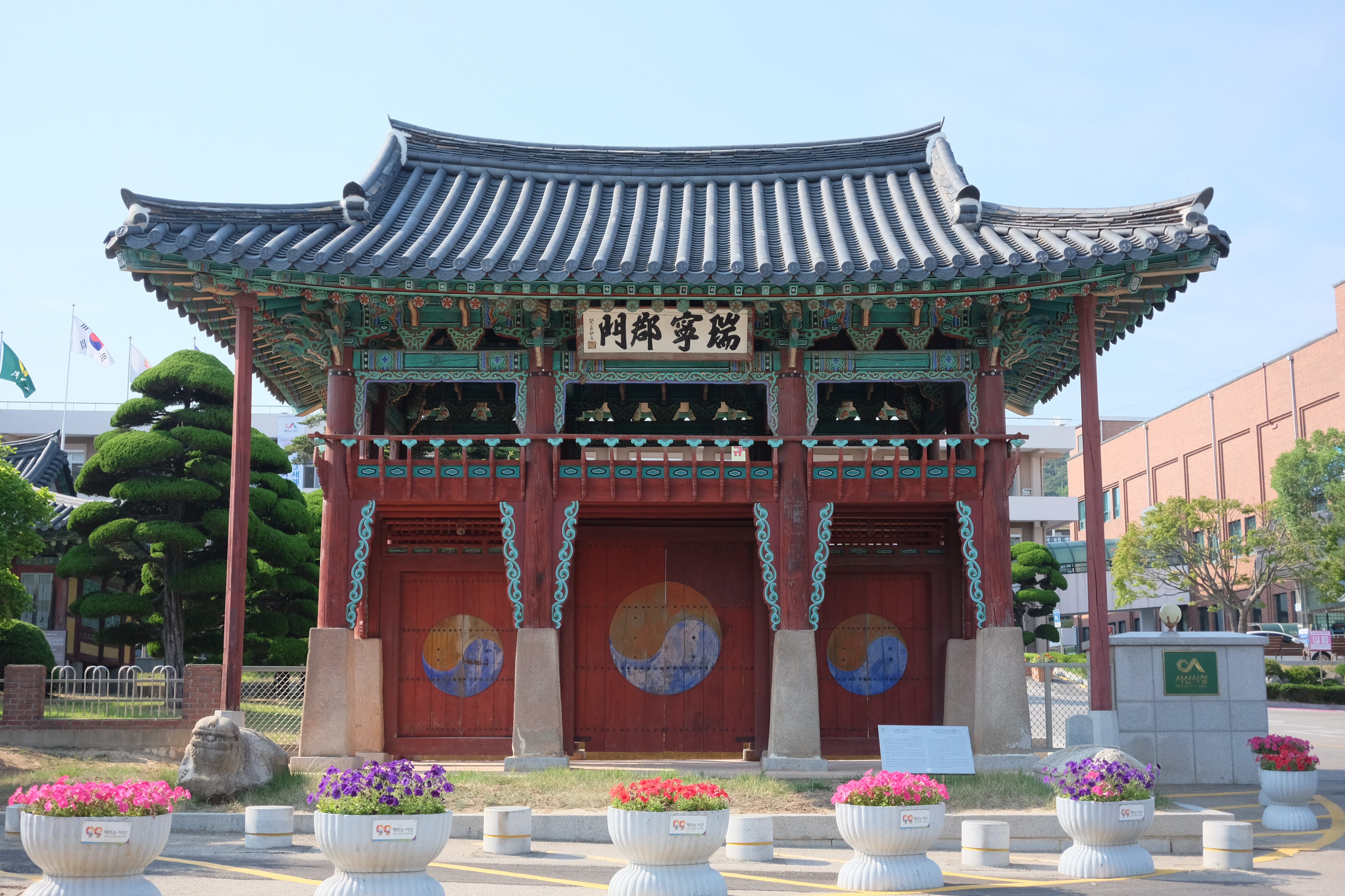 Seosan Gwanamun built in Joseon Dynasty